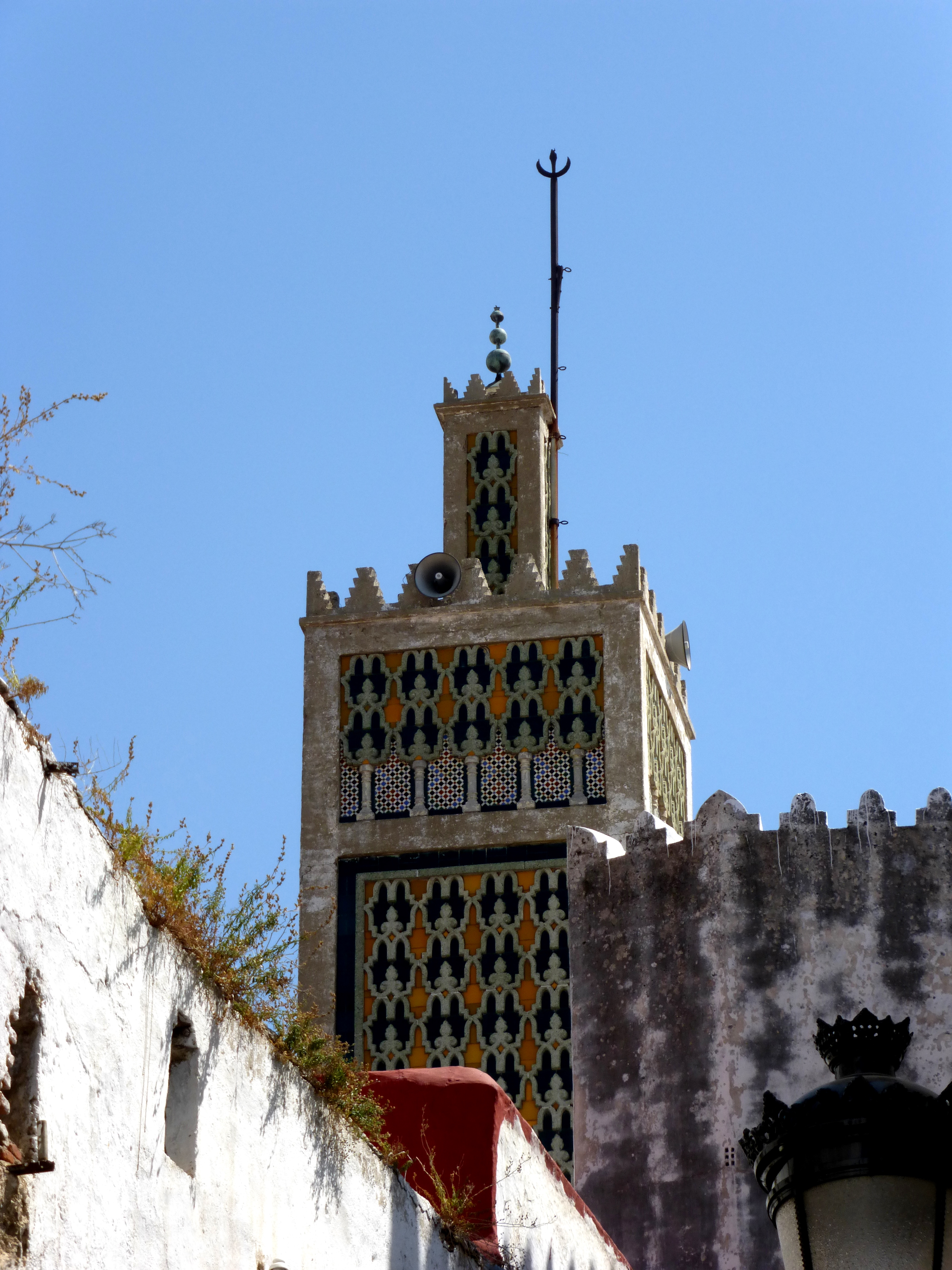 Minaret in Tetouan, Morocco.